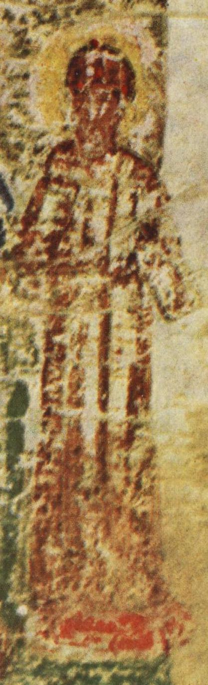 Miniature 69 from the Constantine Manasses Chronicle, 14 century: Tsar Ivan Alexander with his sons Ivan Sracimir, Ivan Shishman and late Ivan Asen